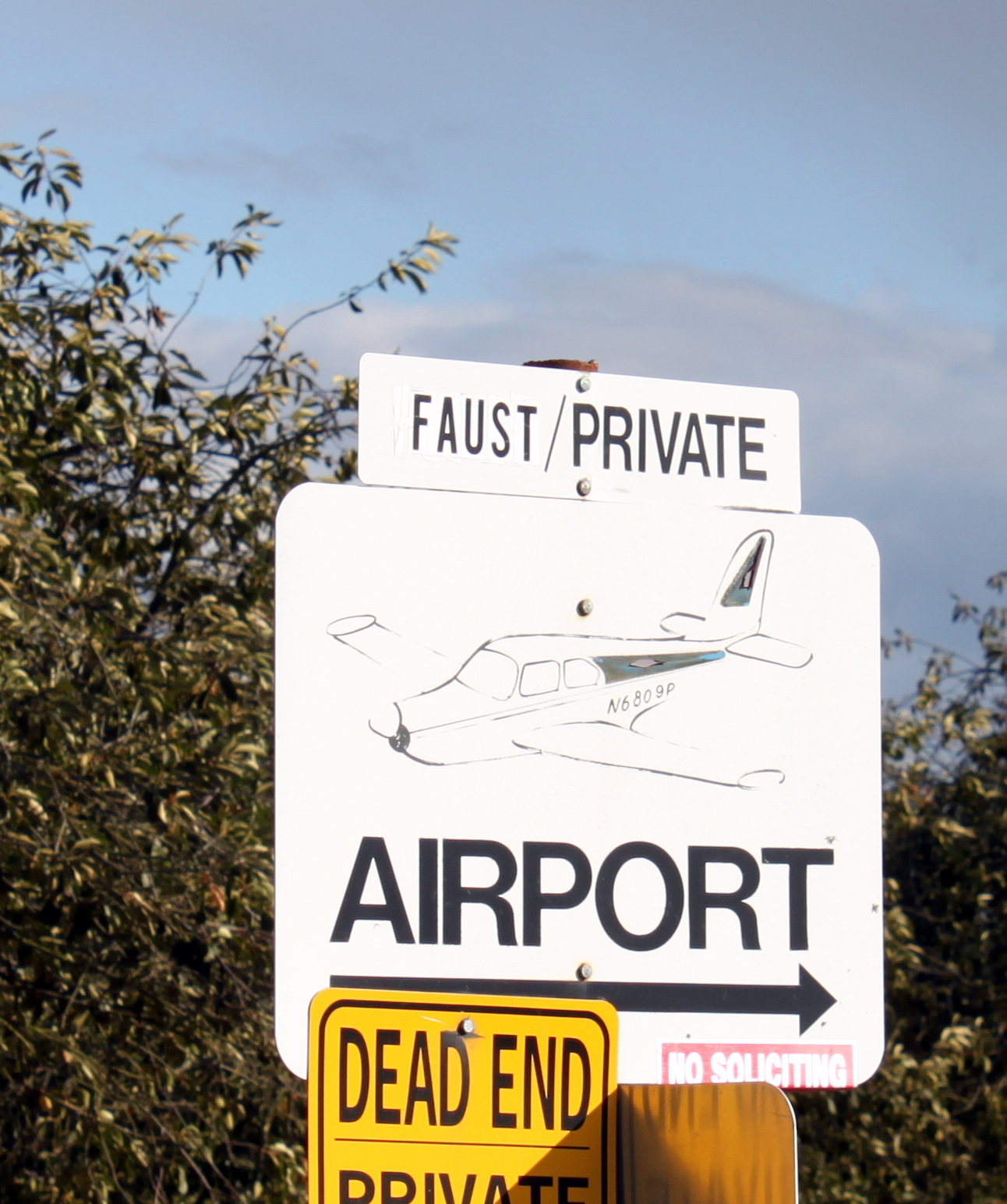 Faust Field sign near Independence, Oregon.